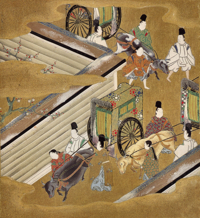 Illustration of the Genji Monogatari, ch.42–Nioumiya Traditionally credited to Tosa Mitsuoki (en:1617–en:1691). Part of the Burke Albums, property of Mary Griggs Burke